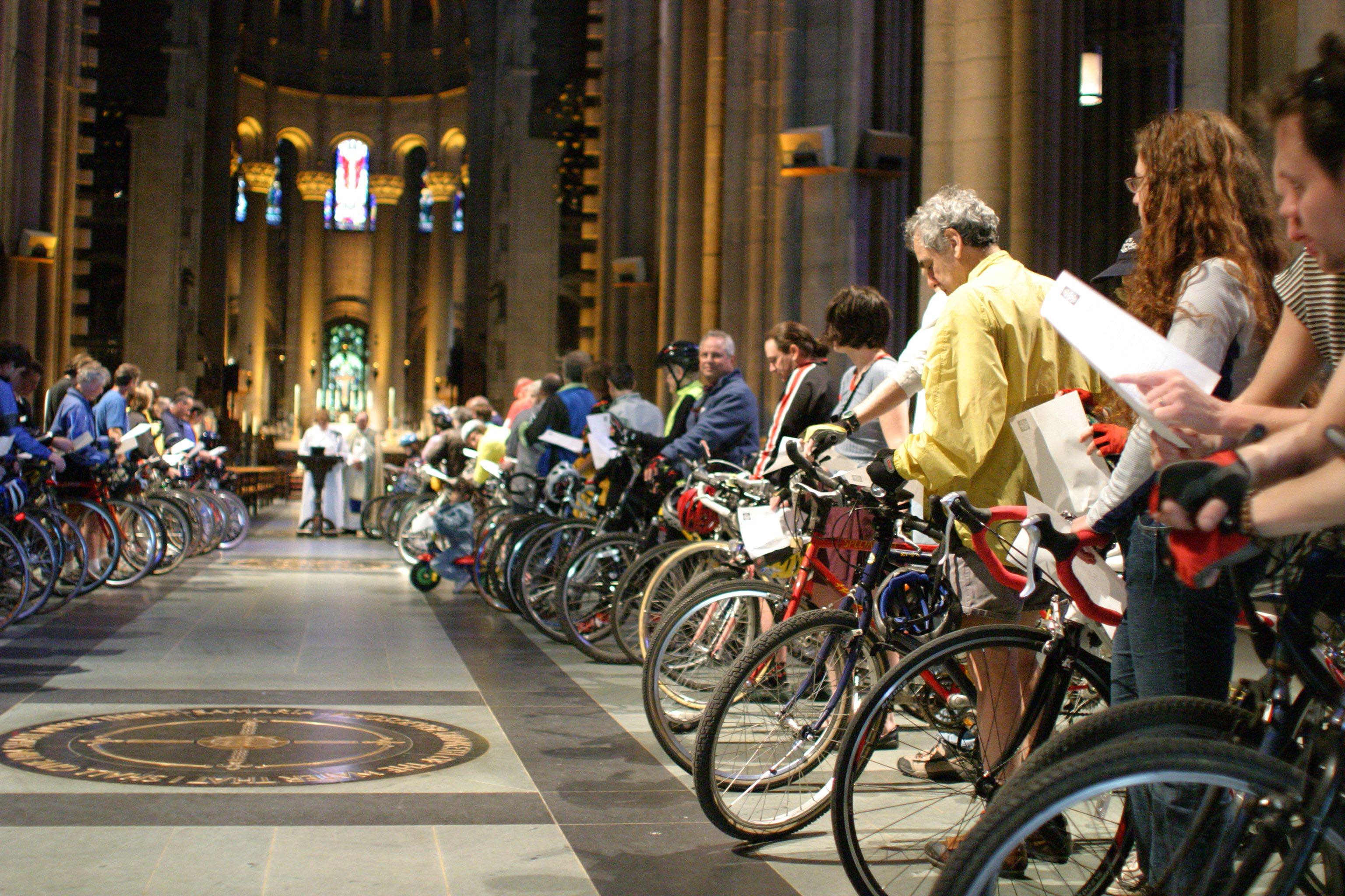 The Blessing of the Bikes at the Cathedral Church of St. John the Divine. This photo probably taken in 1997.